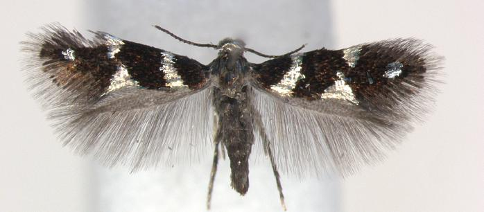 Antispila oinophylla